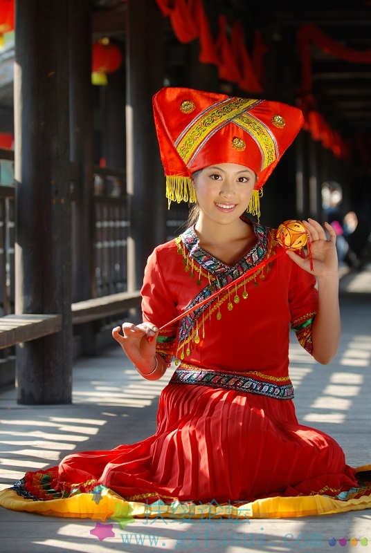 Zhuang's beautiful maiden in Chongzuo Fusui